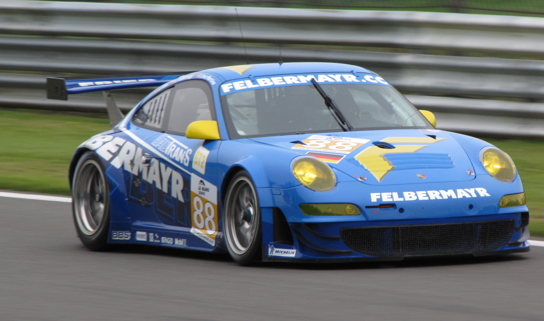 Porsche 911 GT3 RSR (997) de Team Felbermayr Proton pilotée par Christian Ried aux 1 000 kilomètres de Spa 2009.